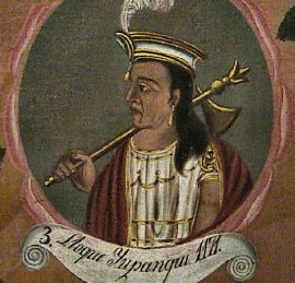 19th Century painting of Inca Roca, Peru